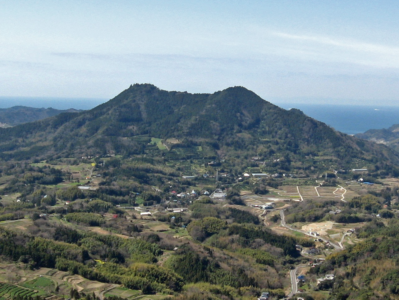 The ENE face of Mount Tomi (Tomi-san) as seen from Mount Iyo (Iyo-ga-teke).